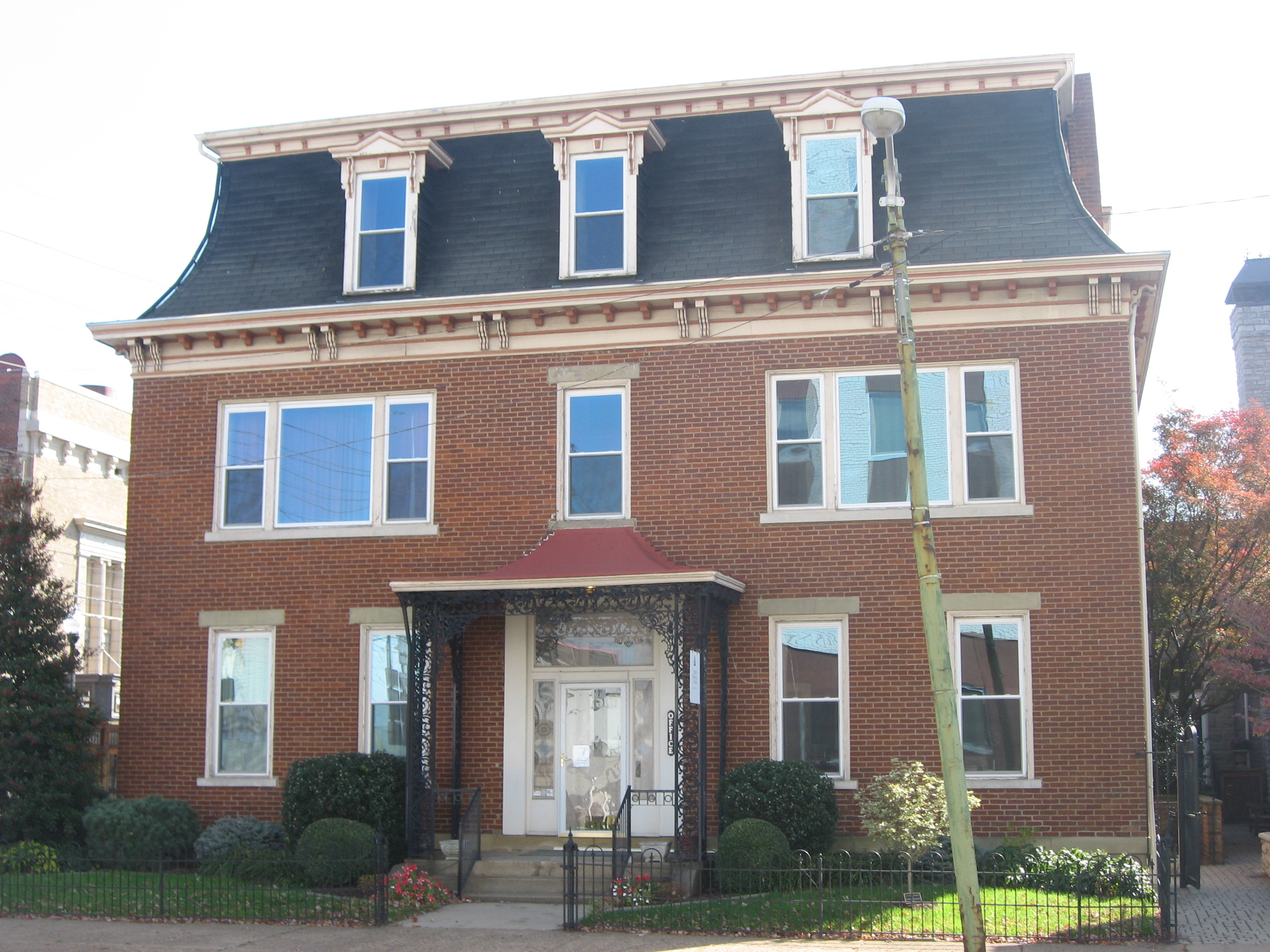 Front of the Trinity Episcopal Church Rectory, located at 430 Juliana Street (West Virginia Route 68) in Parkersburg, West Virginia, United States. Built in 1863, it is listed on the National Register of Historic Places.